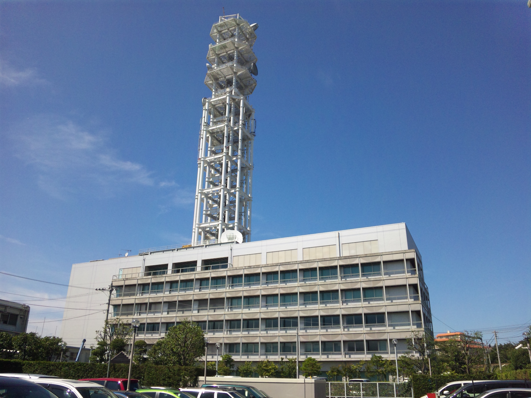 NTT Comunication Fujisawa